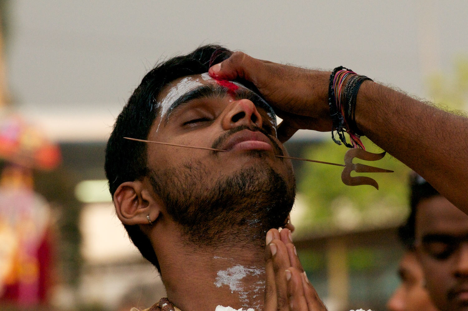 Thaipusam a Hindu festival celebrated mostly by the Tamil community on the full moon in the Tamil month of Thai (January/February). Pictures are taken at the Batu Caves near Kuala Lumpur Malaysia